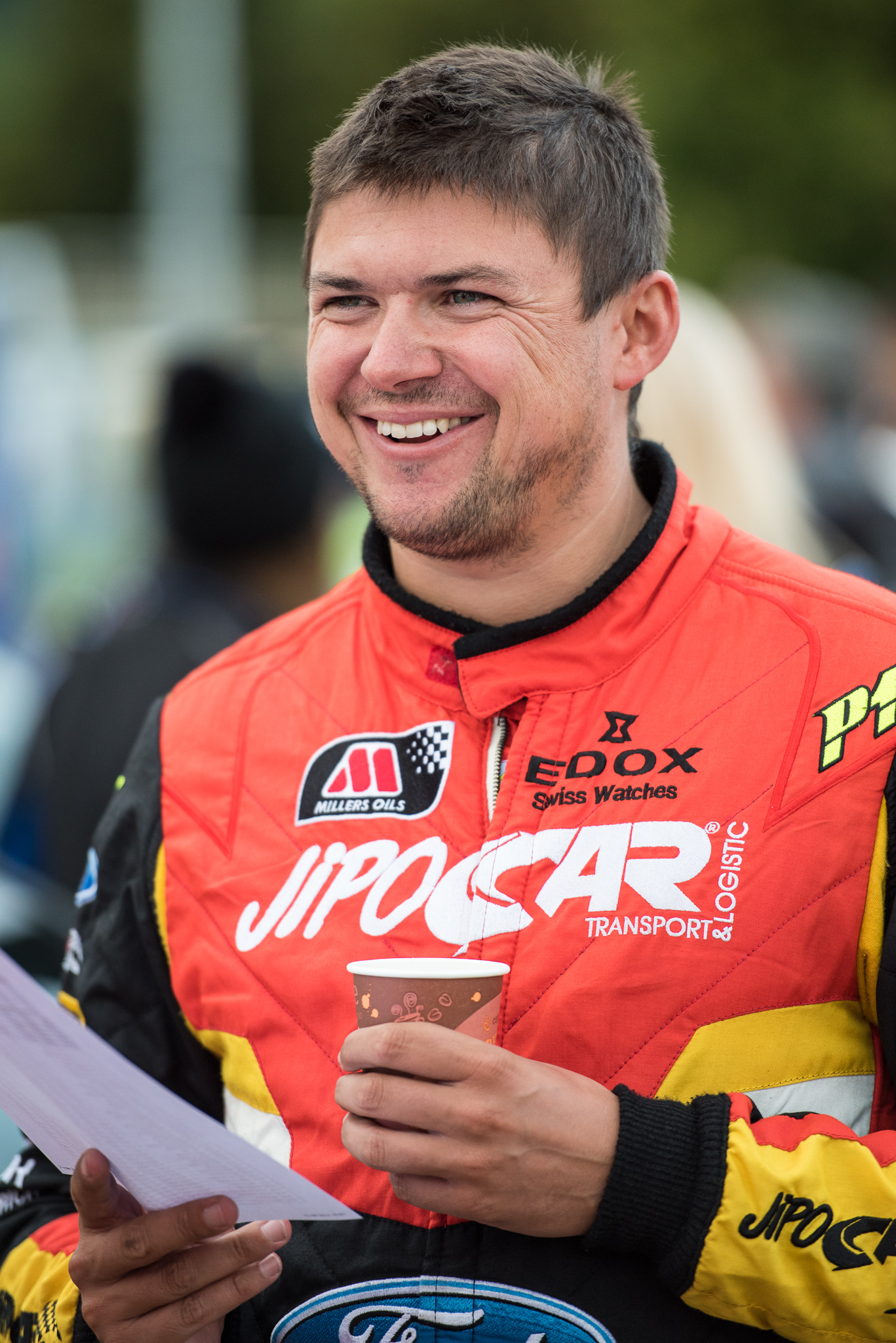 ADAC Rallye Deutschland 2014,FIA,FIA World Rally Championship,Jipocar Czech National Team,Martin Prokop,Motorsport,Rally,Rallye,WRC